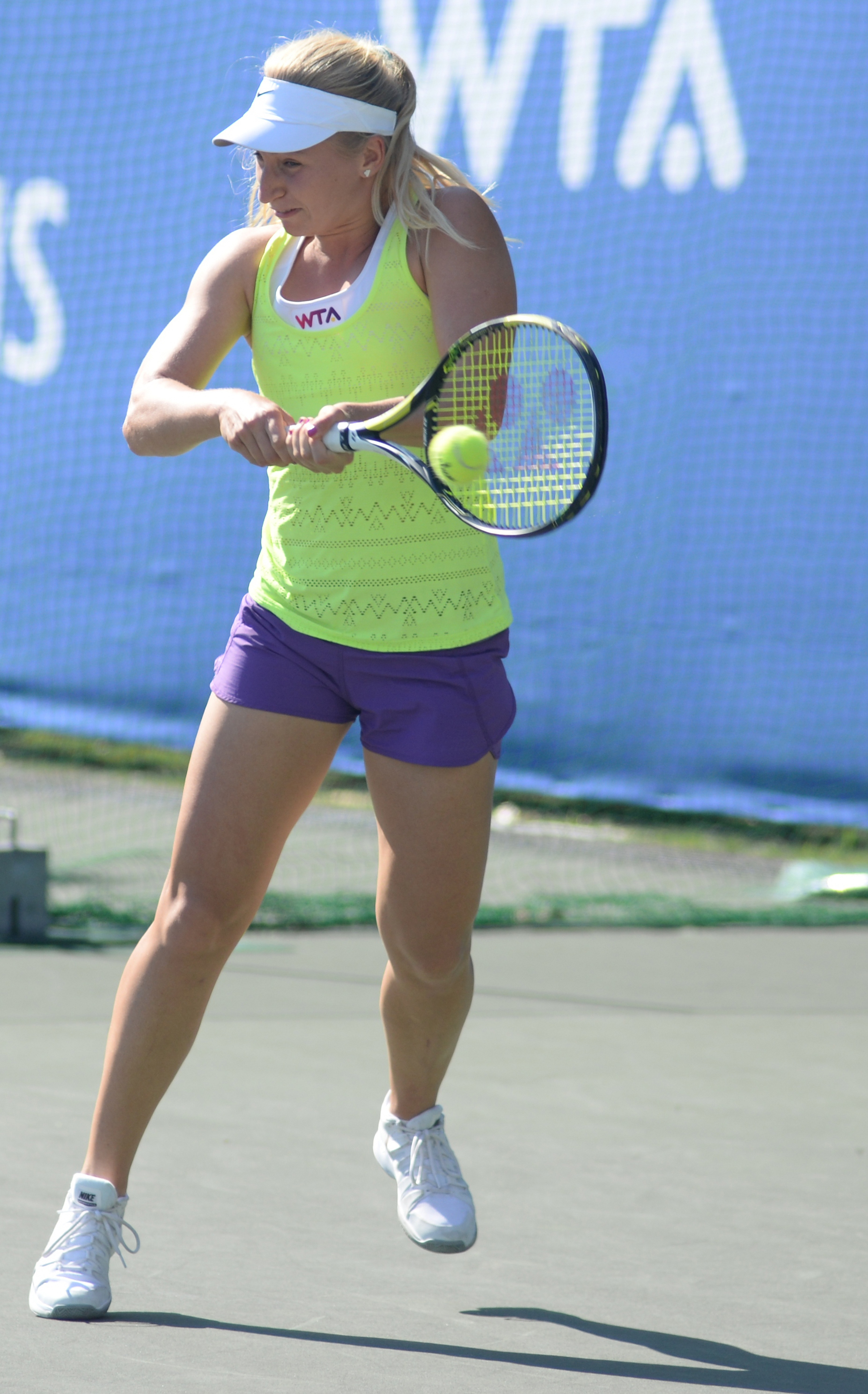 Daria Gavrilova at the 2014 Toray Pan Pacific Open